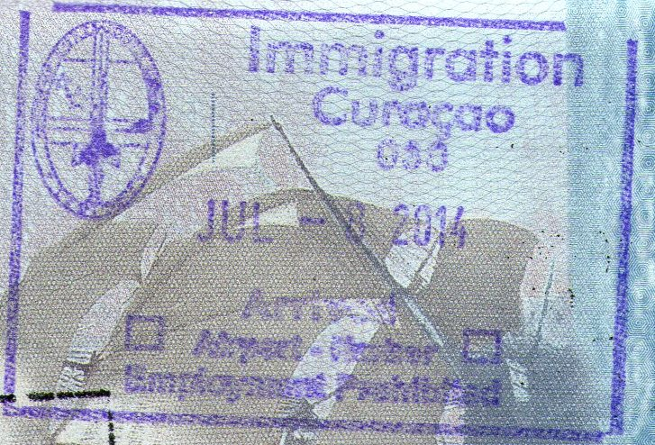 Curacao entry passport stamp